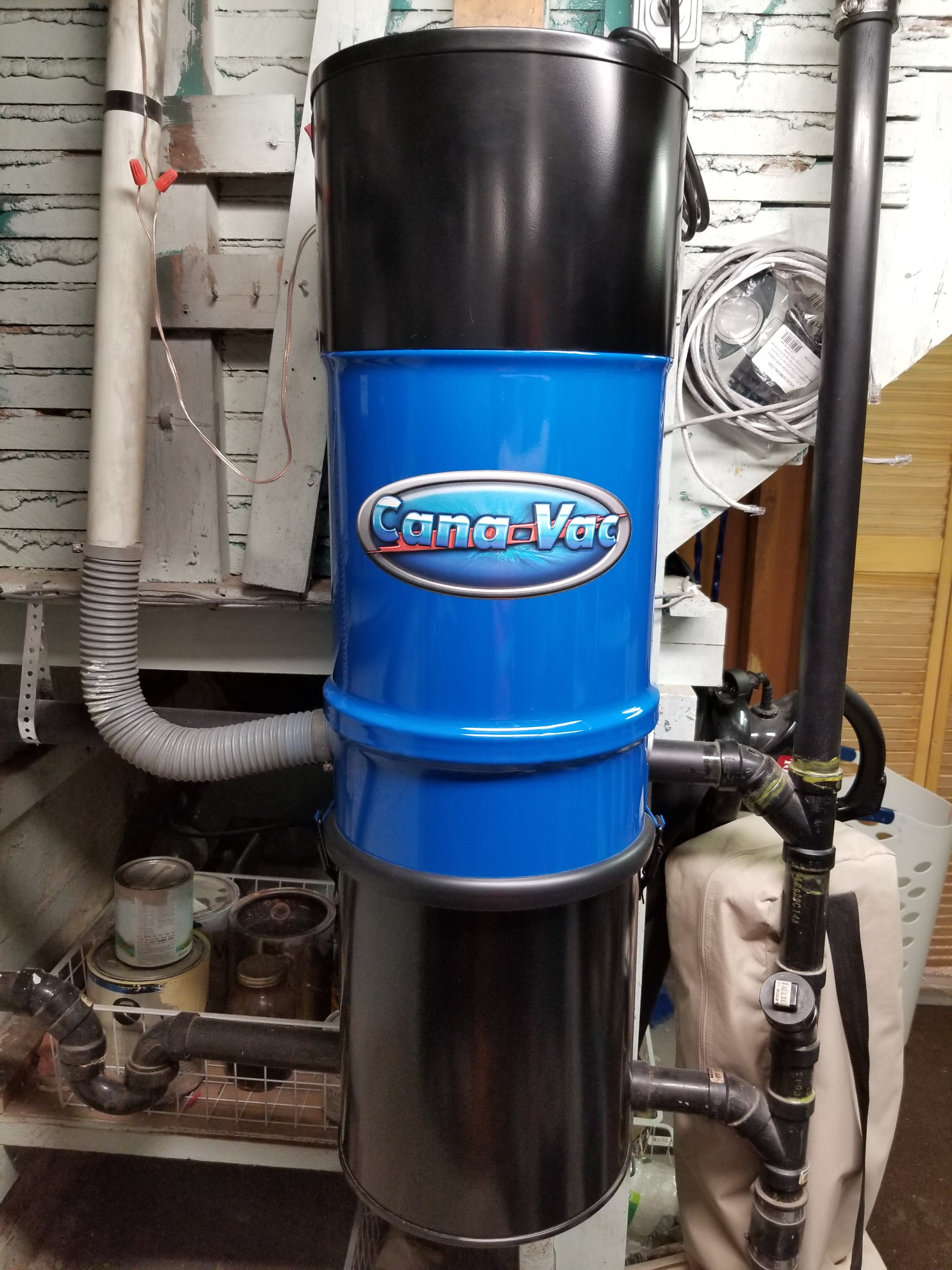 Cana-Vac 250-E central vacuum power unit retrofitted in a 1929 Canadian house